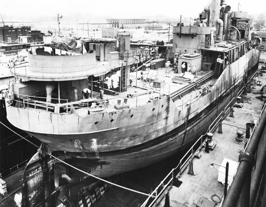 USS Monomoy (AG-40) in drydock, 27 August 1943, at Maryland Drydock Co., Baltimore, Maryland (USA).